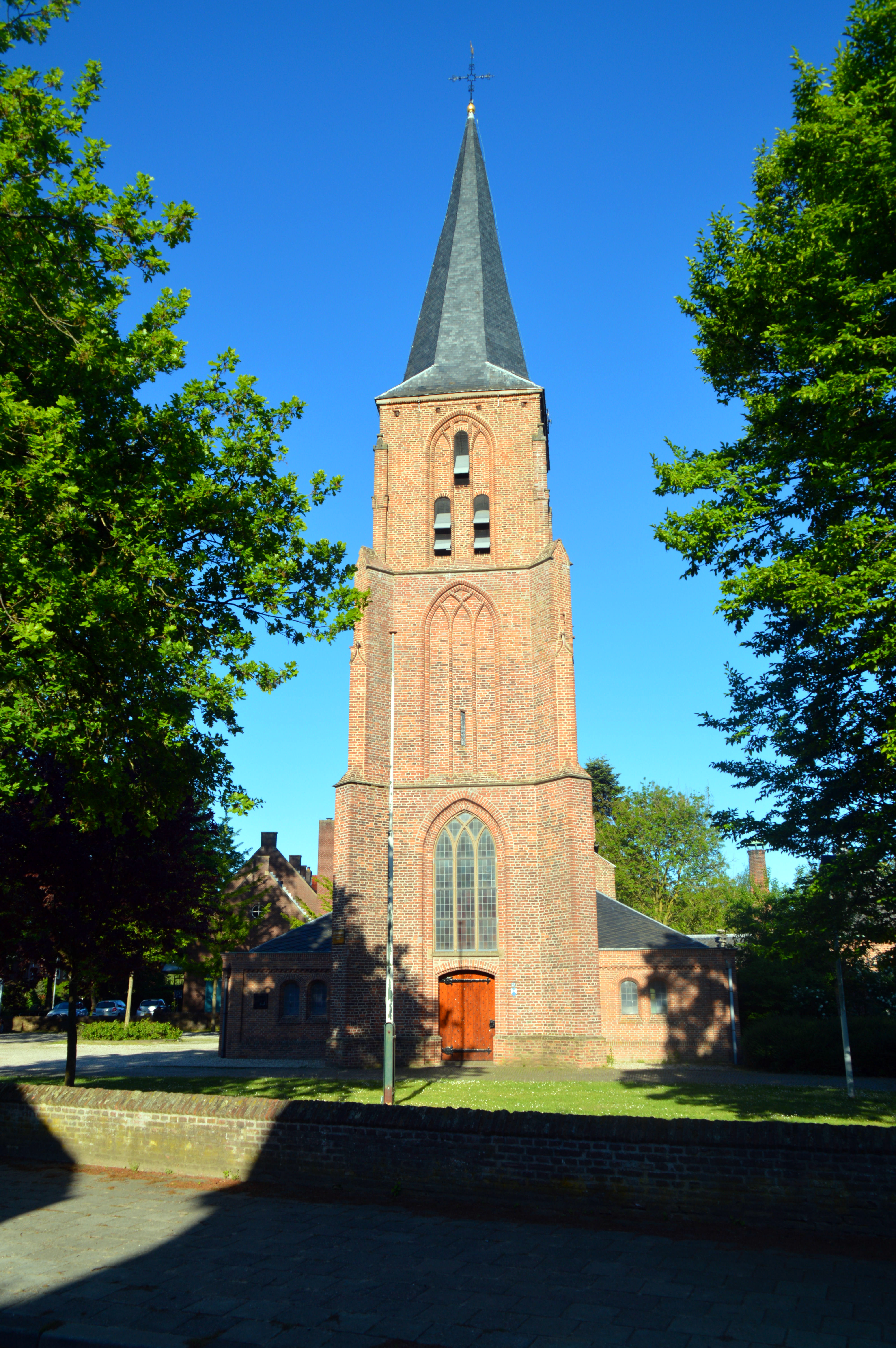 Petruschurch Hees Nijmegen